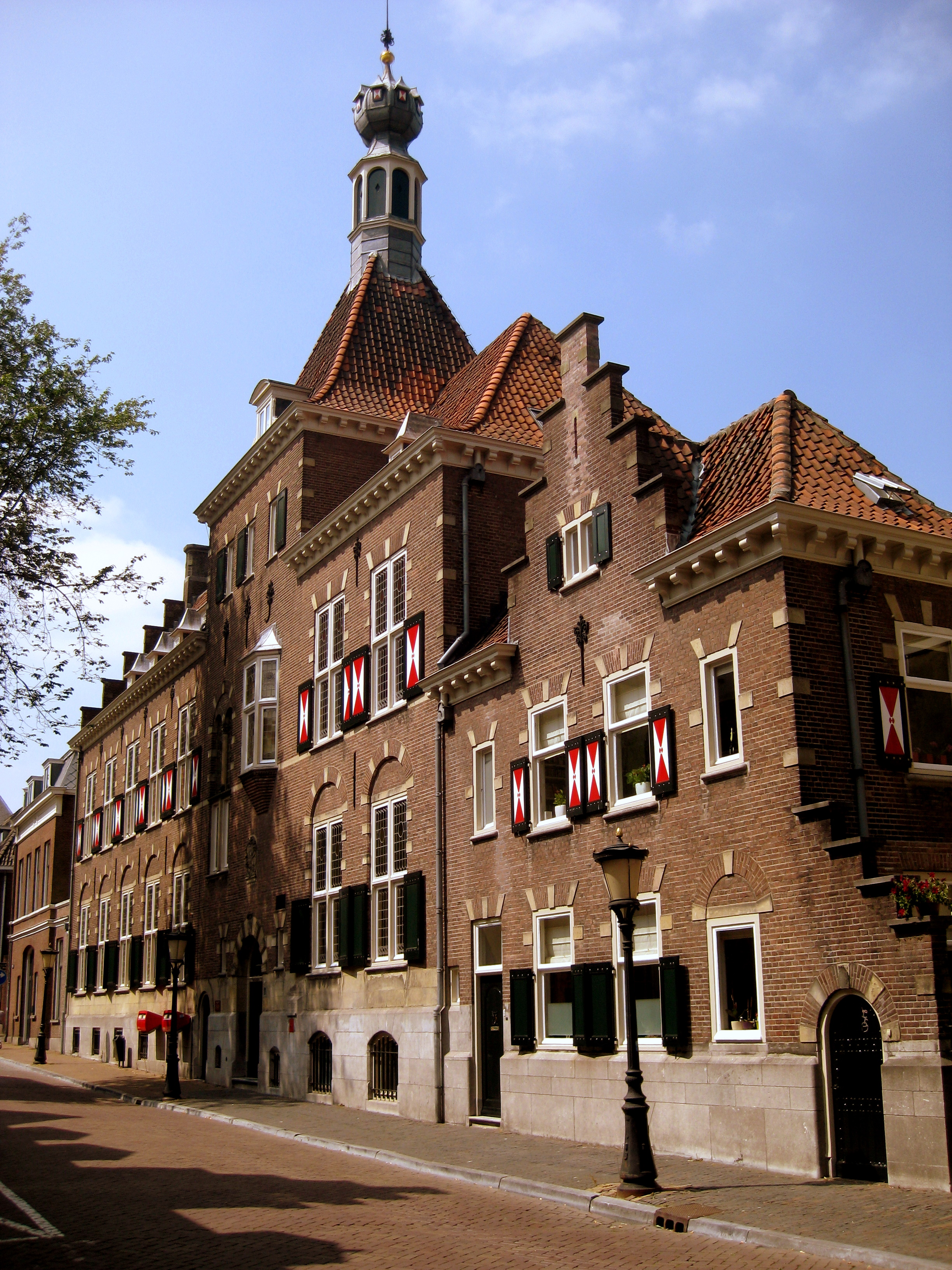 Library Voetiusstraat 2a, J. Stuivinga, 1910